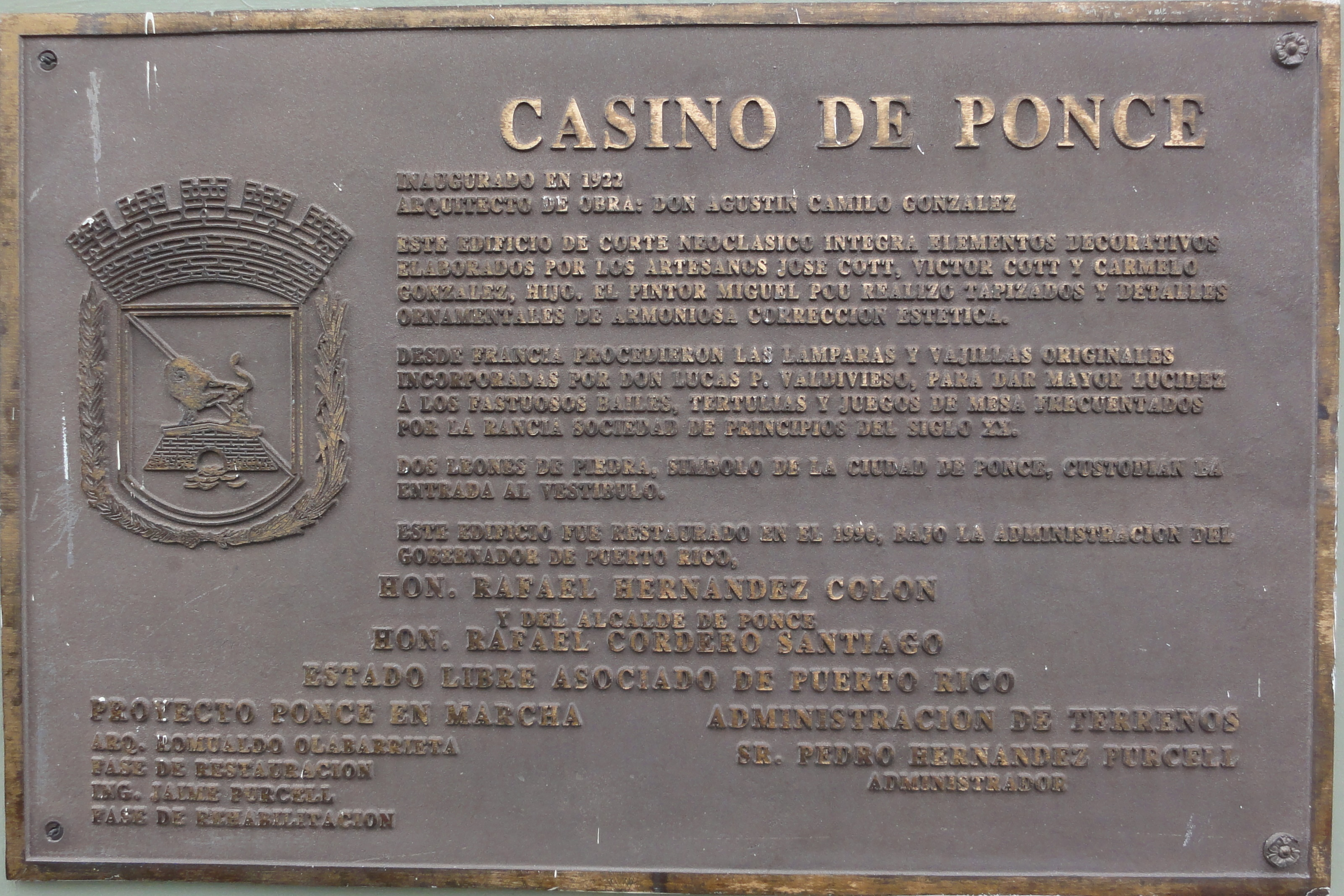 Placa en la pared exterior norte del Casino de Ponce, reconstruido bajo el Proyecto Ponce en Marcha, Bo. Cuarto, Ponce, PR, foto tomada mirando hacia el sur (DSC00173B)